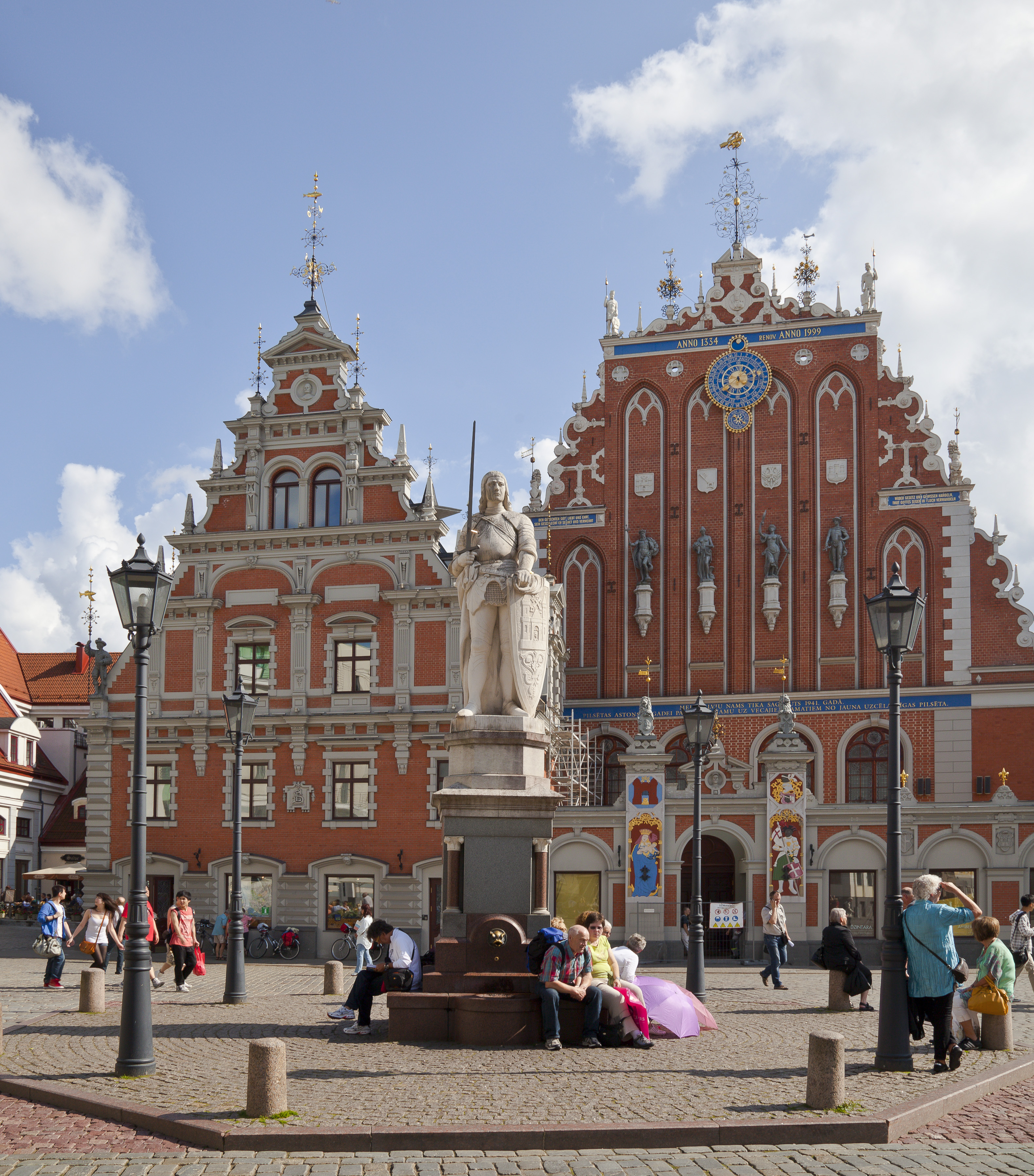 Town Hall Square, Riga, Latvia